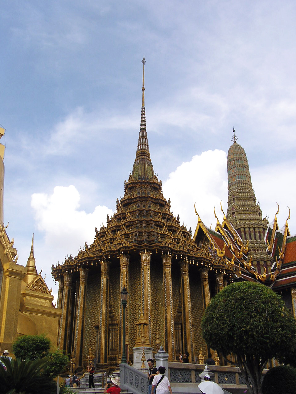 Phra Mondop (center) within Wat Phra Kaeo, Bangkok, Thailand